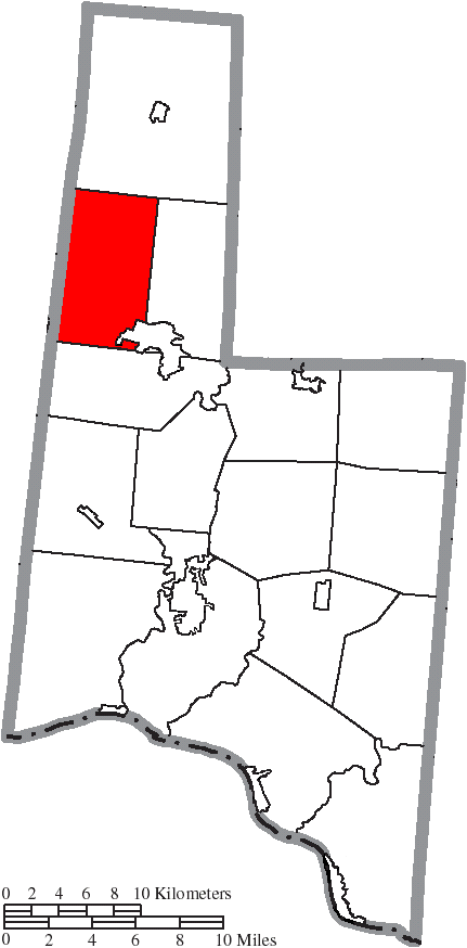 Map of the municipal and township boundaries of Brown County, Ohio, United States, as of the 2000 census, with the location of Sterling Township highlighted. Township borders are shown only in unincorporated areas in order to differentiate incorporated and unincorporated areas more clearly.